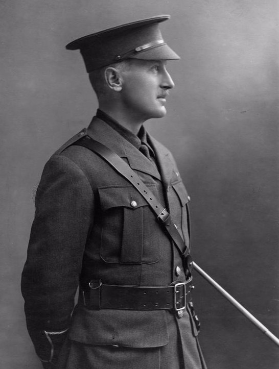 William Lionel Charles Walrond (1876-1915) in military uniform. Photographed during the First World War, before his death on 2 November 1915.